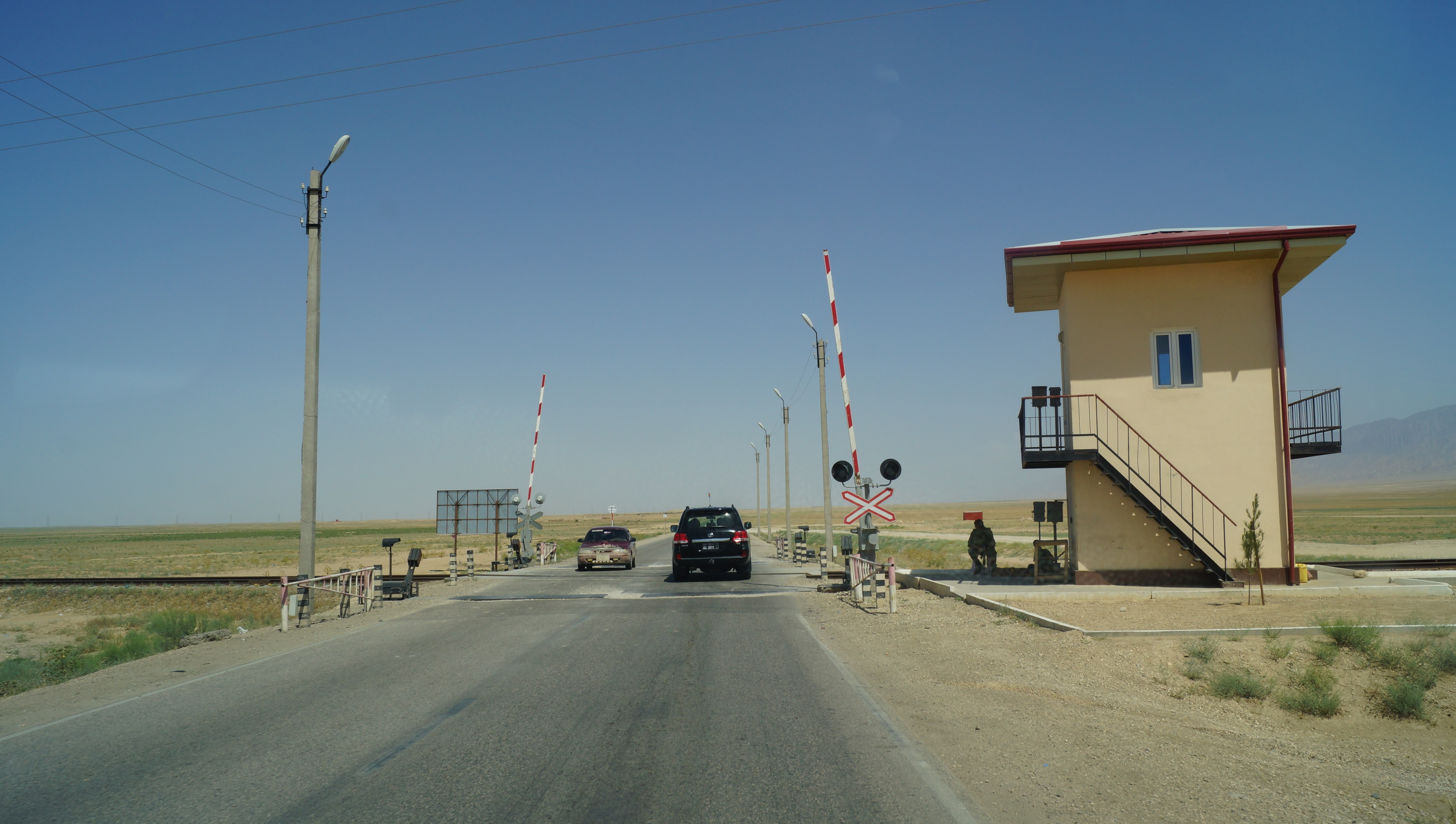 The new and first railroad from Hairaton (Uzbek border) to Mazar-e Sharif (near airport / ISAF-Camp).